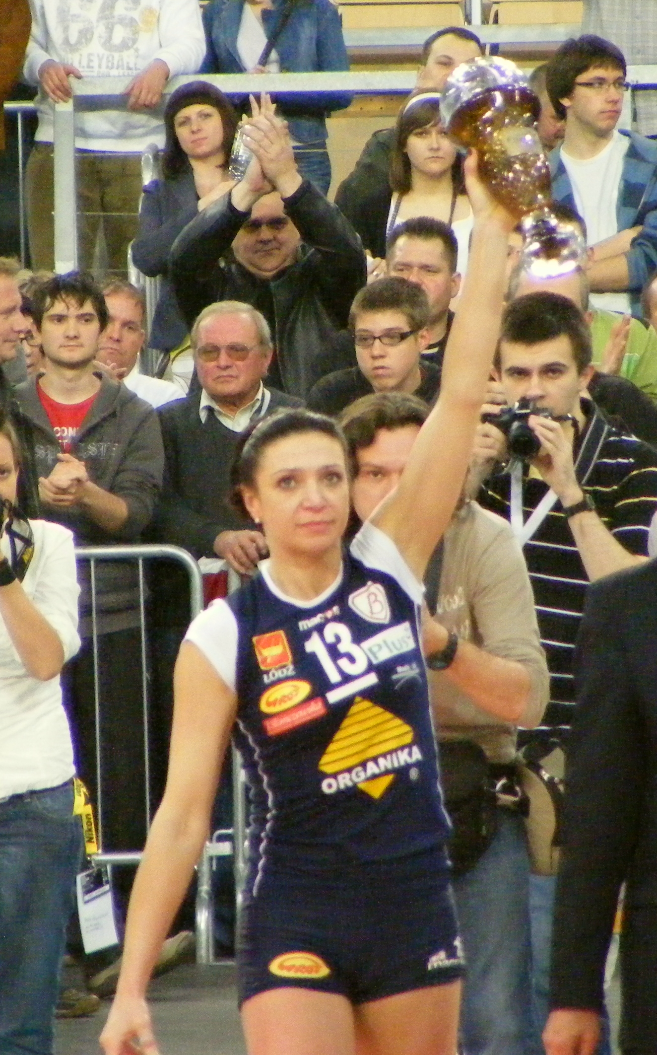 Malgorzata Niemczyk with prize for 4th place 2009/2010 for Organika Budowlani Lodz